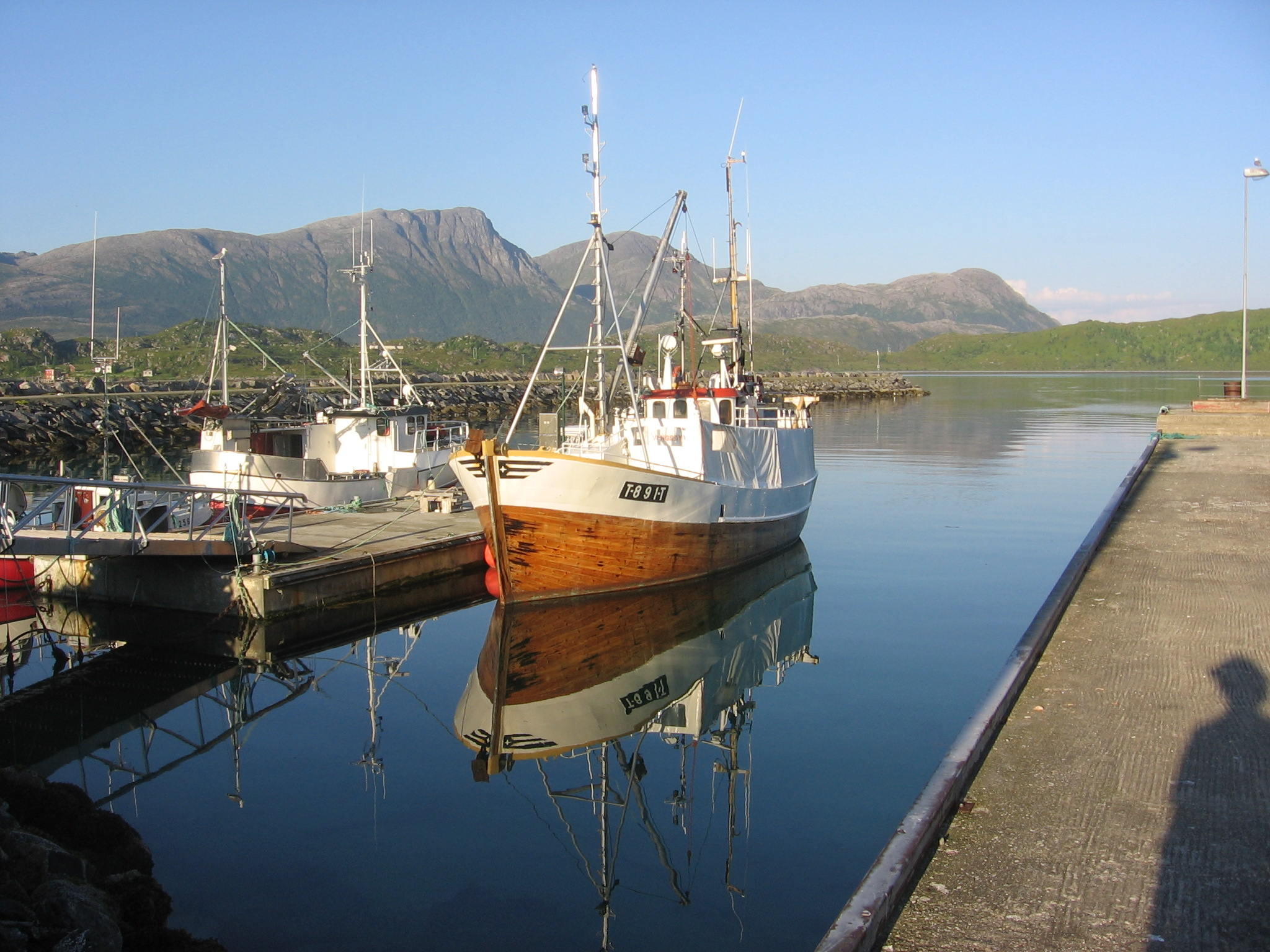 Vågsøya seen from the harbour at Vengsøya